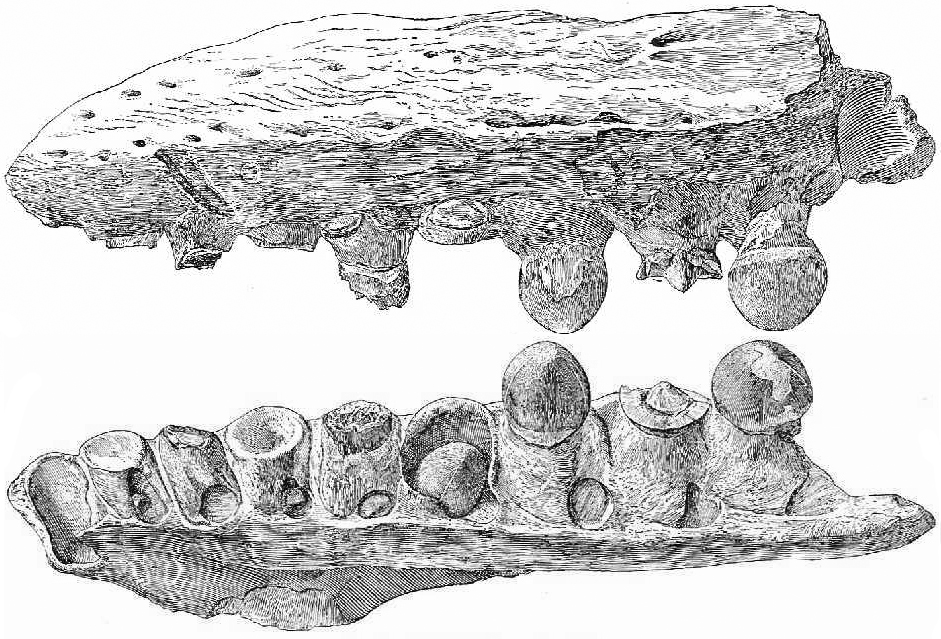 Plate 39 from Gilmore (1912): Lateral view of the left maxilla of Globidens alabamaensis (Type specimen) in the United States National Museum (USNM 6527). Plate 40 from Gilmore (1912): Oblique, medial view of dental border of the left maxilla of Globidens alabamaensis (USNM 6527.